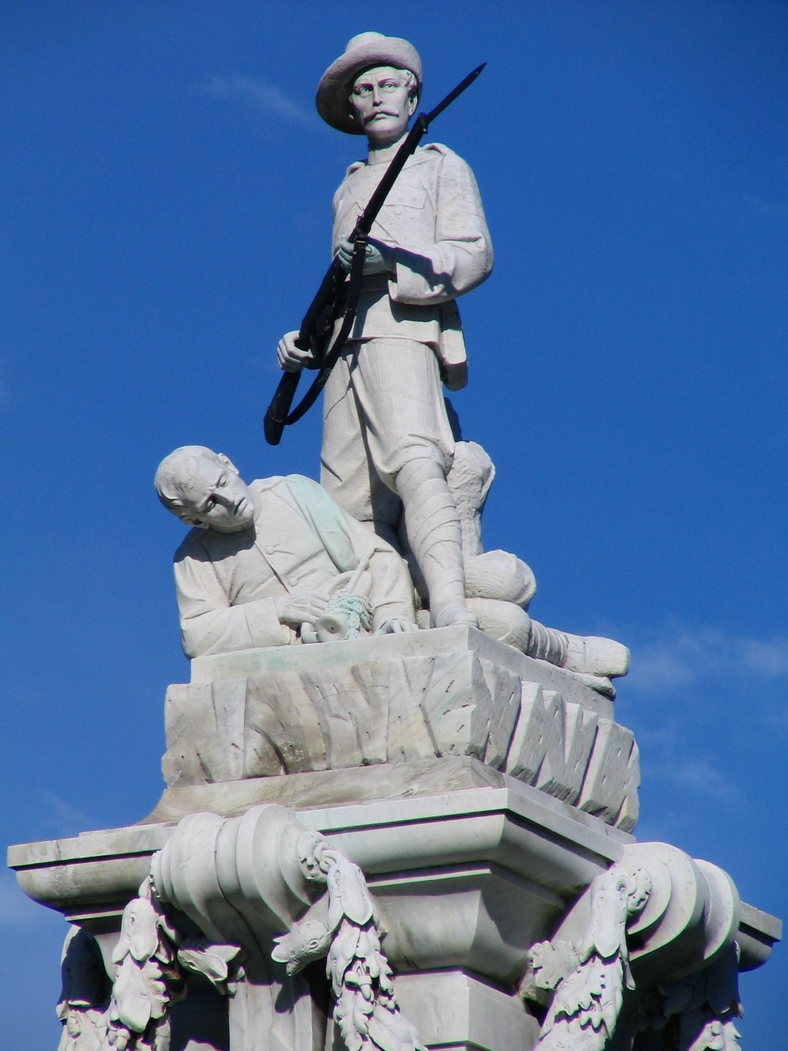 Boer War Memorial, Dunedin, New Zealand, closeup of soldier defending fallen comrade.